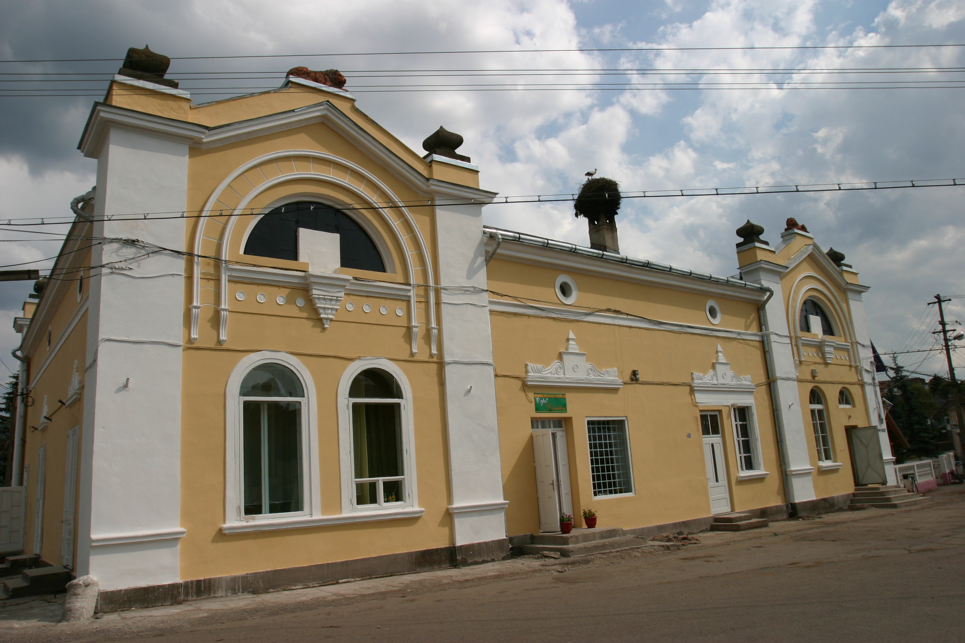 Sáska Maison. Owned by local Roman Catholic parishSáska-épület vagy Dobribán ház. 1875 és 1893 között épült. Jelenleg a remetei római katolikus egyház tulajdonában van